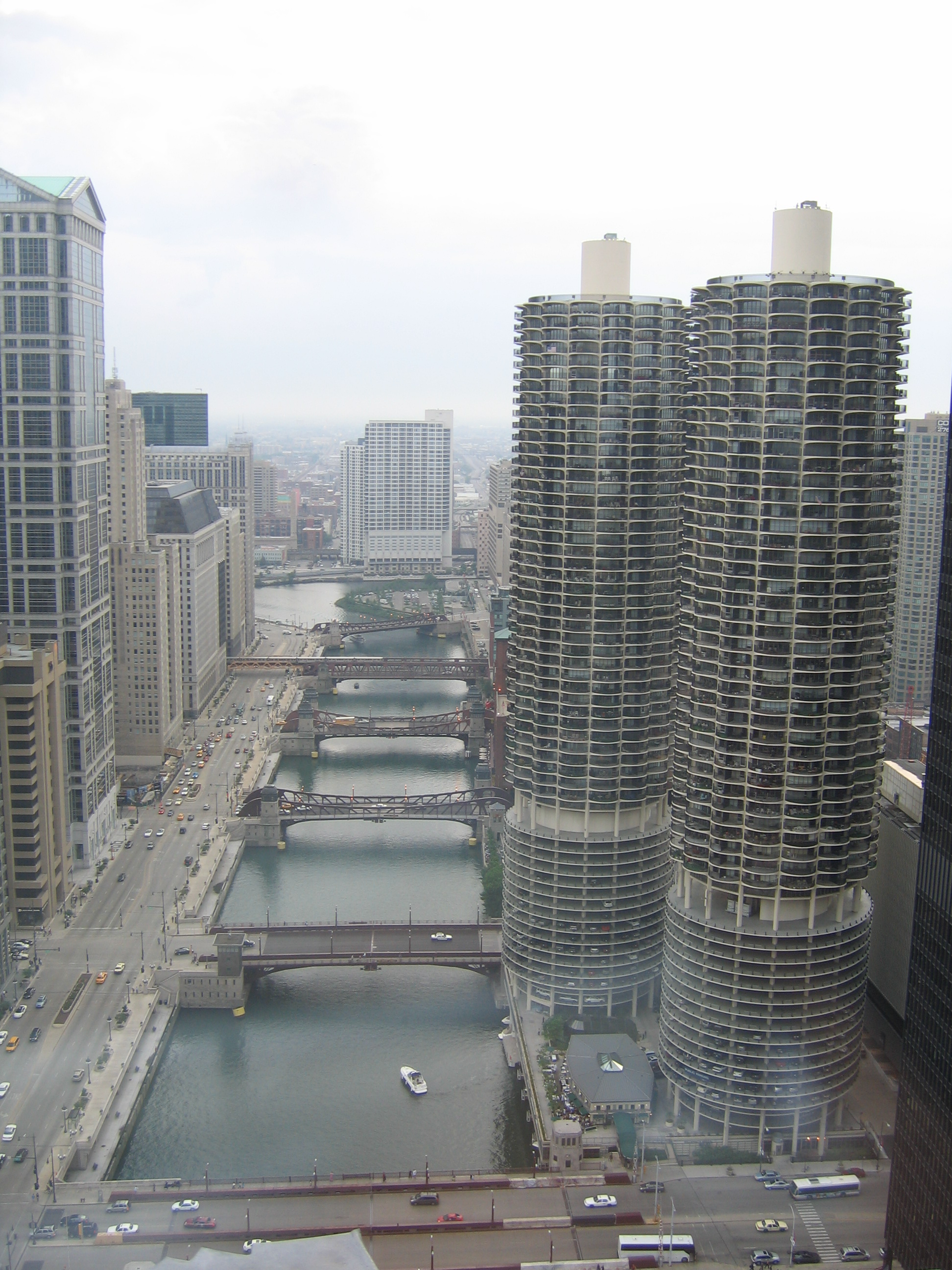 Marina Towers in Chicago, looking westward. Photographed on June 1, 2007 by User:Spikebrennan.